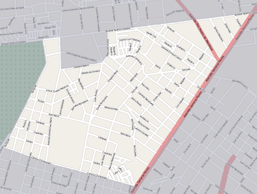 Street map of Las Acacias, Montevideo, exported from OpenStreetMap. I added shading to delimit the barrio. This map may be incomplete, and may contain errors. Don't rely solely on it for navigation.